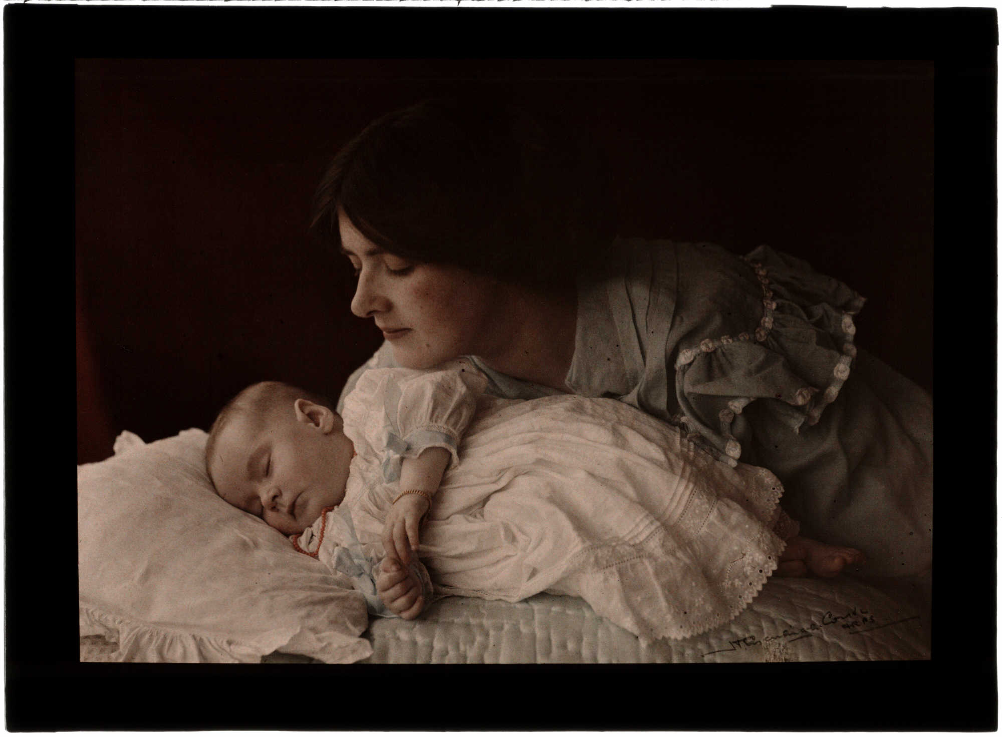 Shown at the 1912 RPS exhibition, this sensitive portrayal of a mother and her baby, is usually assumed to be of Essenhigh-Corke's own family.[1]